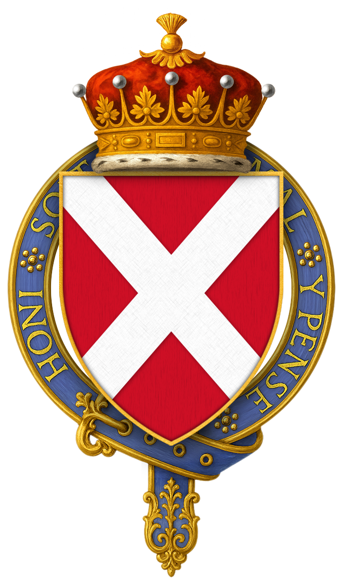 Coat of arms of Sir Ralph Neville, 1st Earl of Westmorland, KG